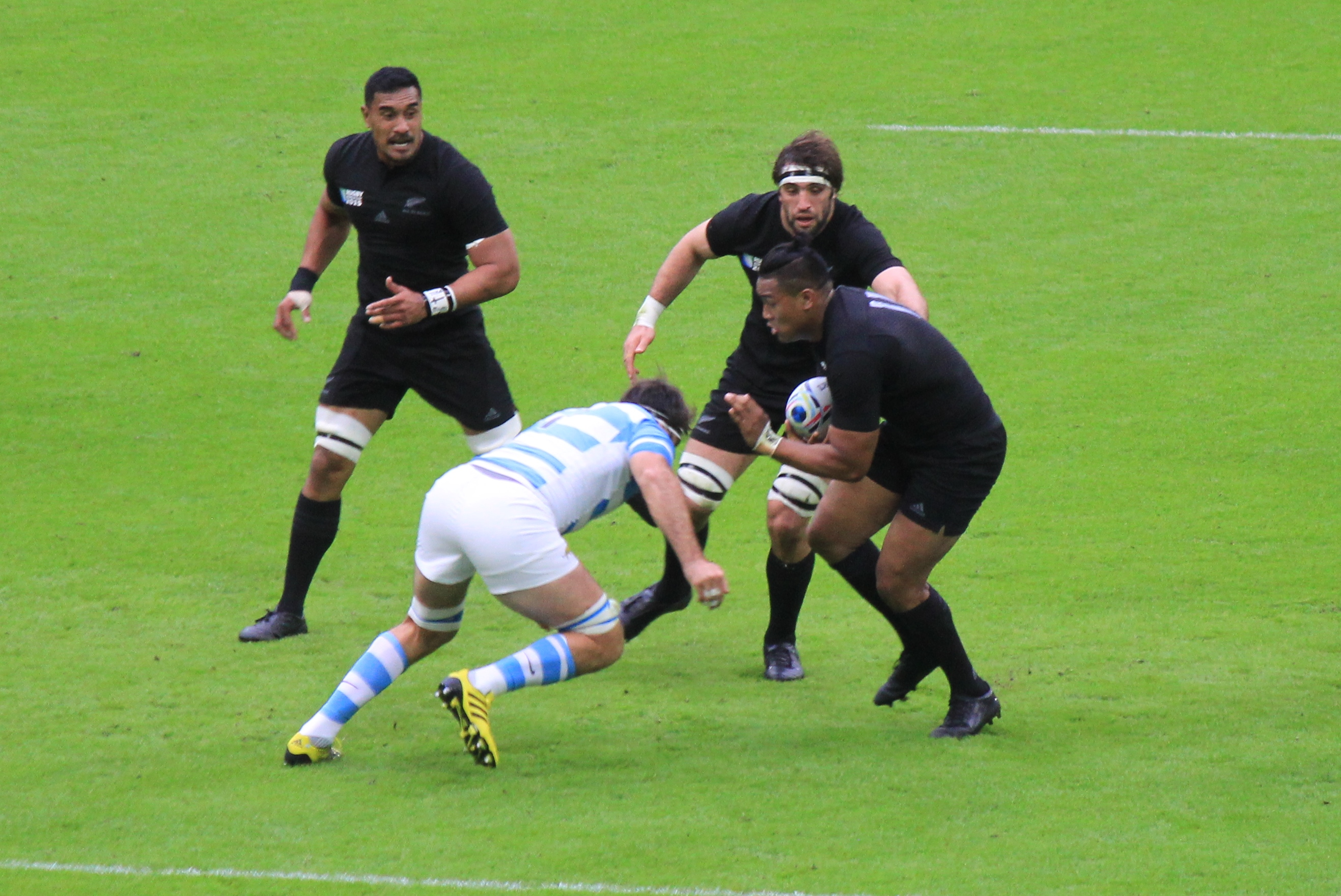 15-09 RWC New Zealand vs Argentina 043